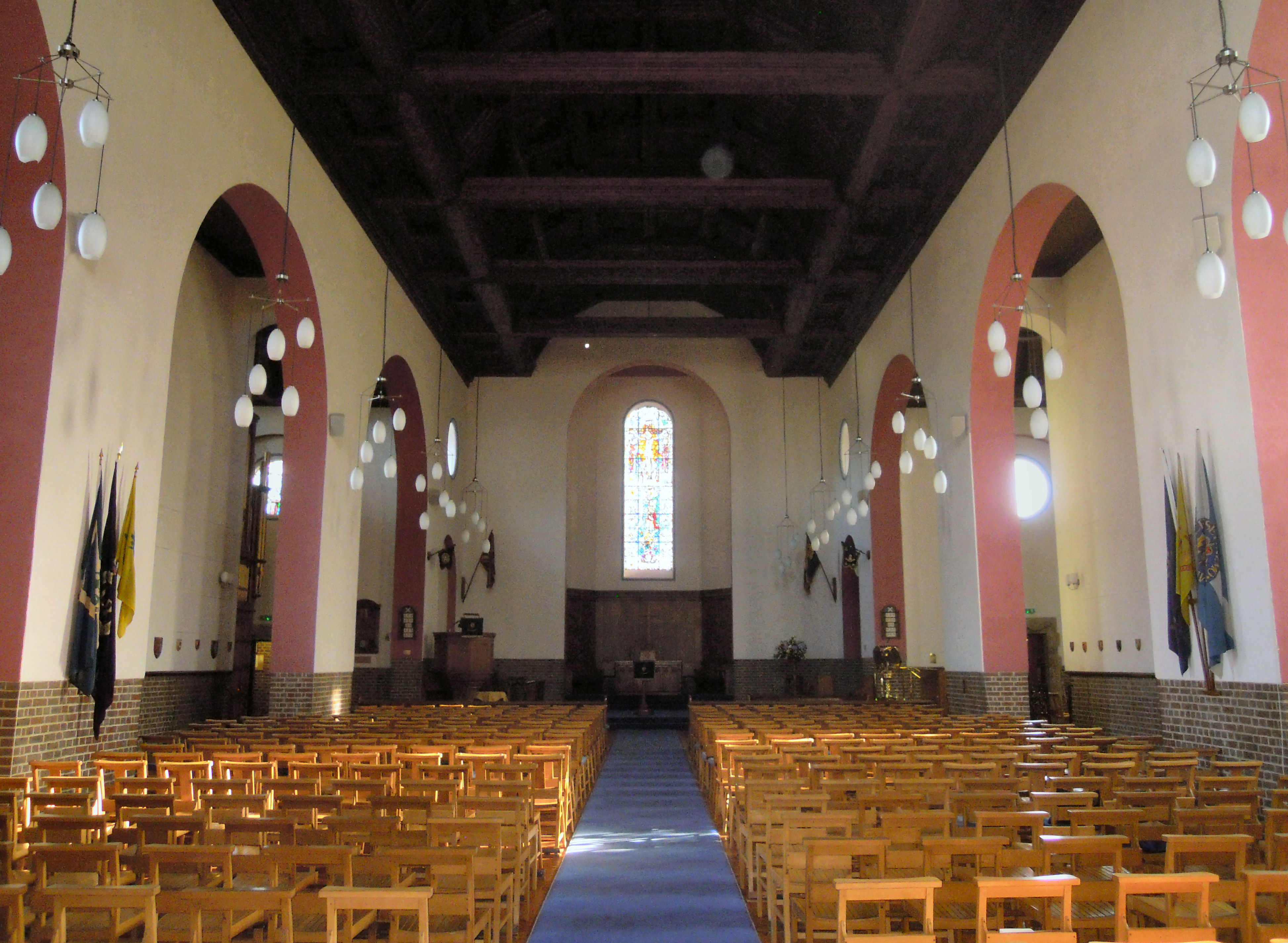 View down the nave towards the chancel of St Andrews Garrison Church in Aldershot in Hampshire in 2019